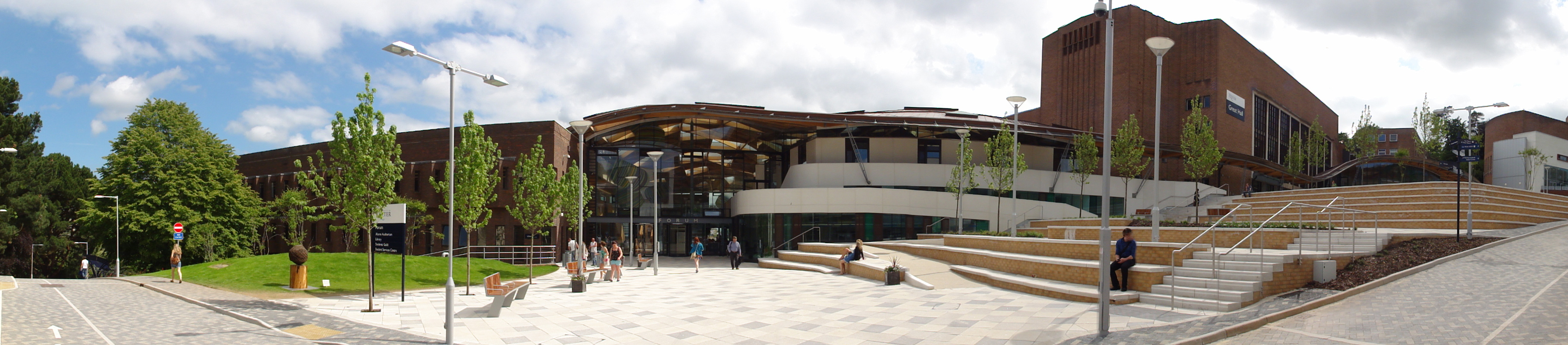 University of Exeter Forum and Great Hall with reception area